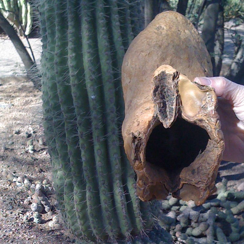 "Saguaro boot" held up next to saguaro cactus. The actual orientation of this preserved bird's nesting hole when it was in its original saguaro is the opposite of what is shown; the "toe" of the boot is where the bird tunneled down, not up. This boot is at the Phoenix Desert Botanical Garden, and one of their volunteers is holding it up for me to photograph.